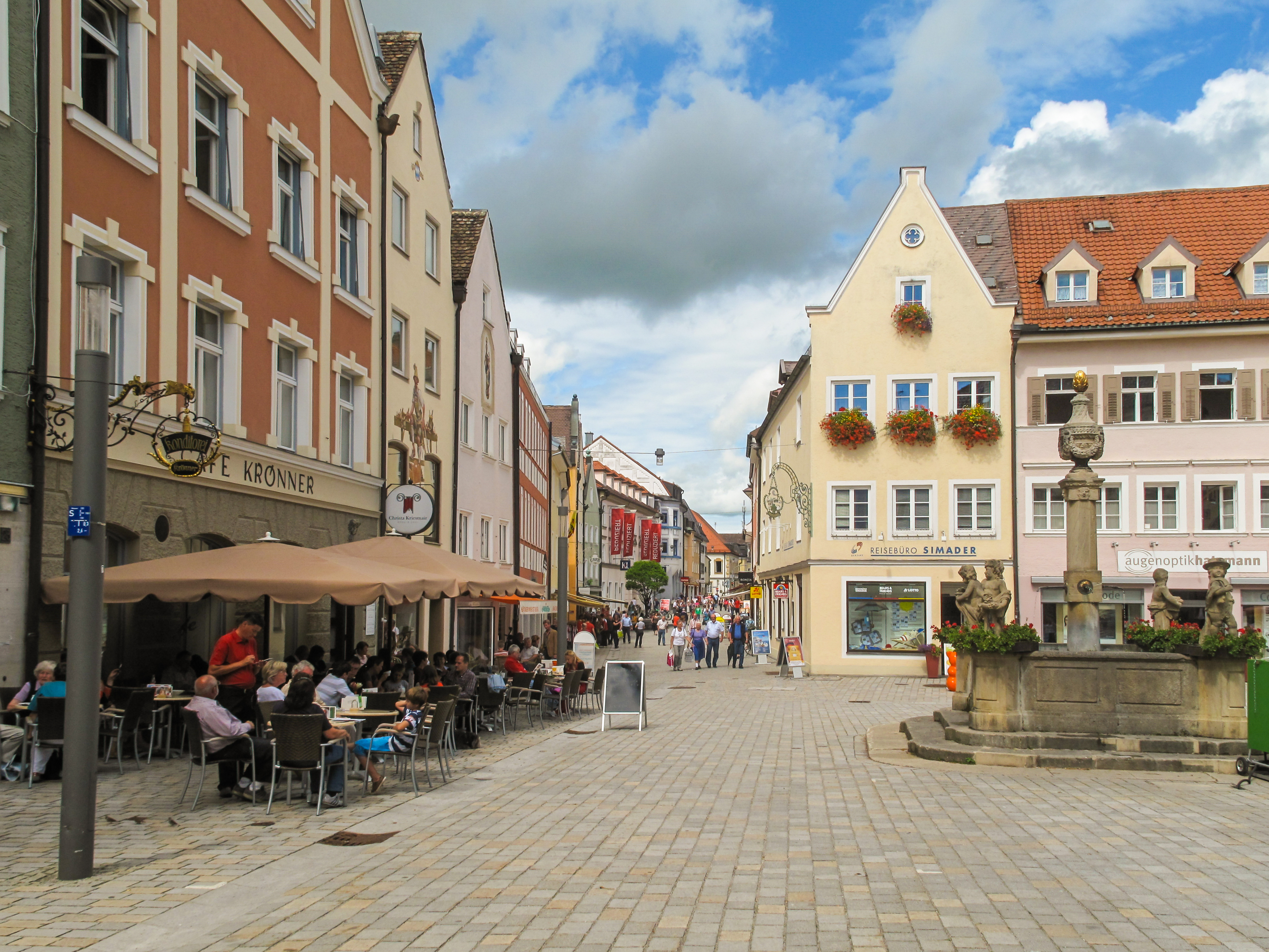 Weilheim, view to a street: die Schmiedstrasse